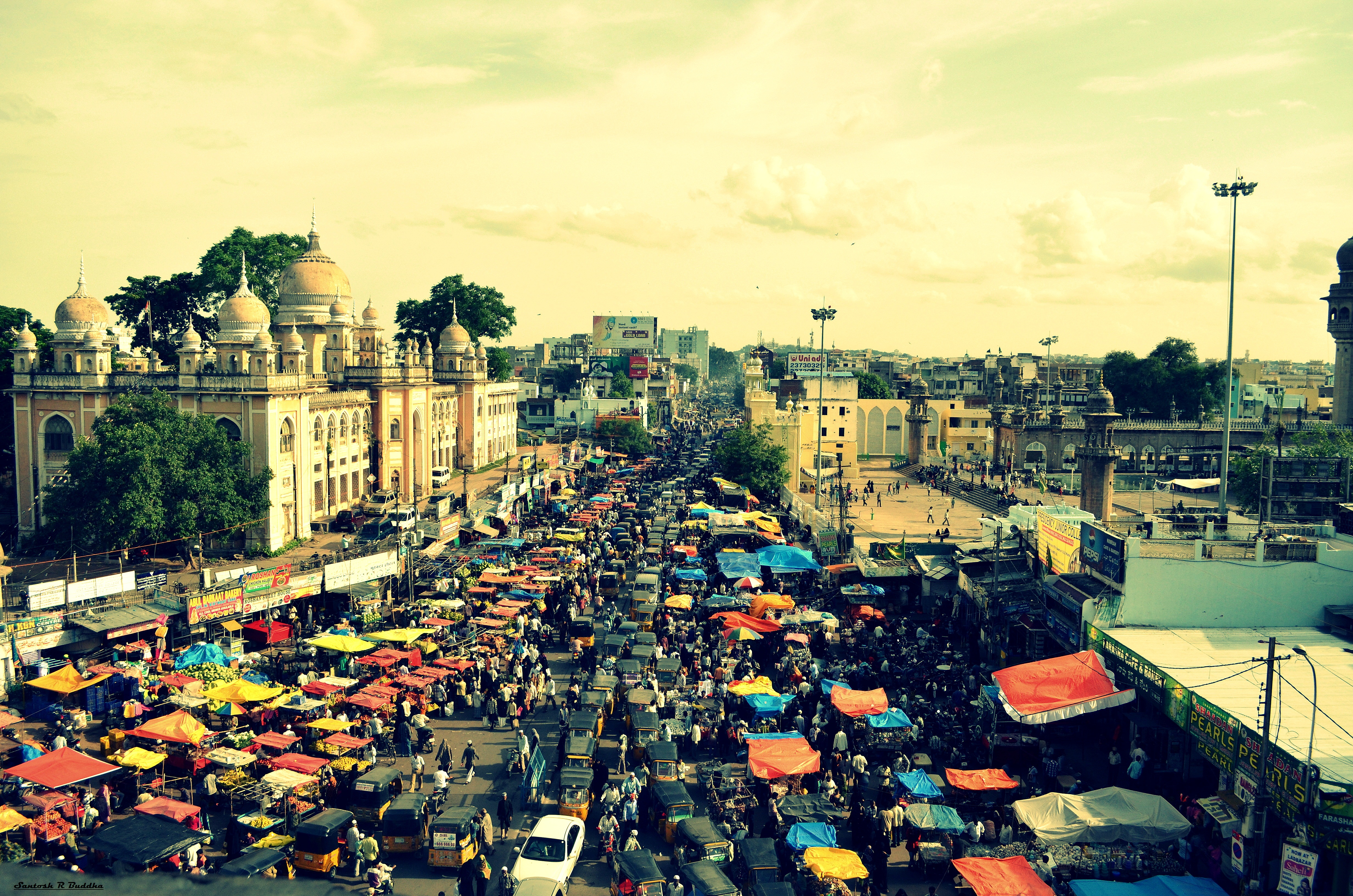 Street in India, Festival time